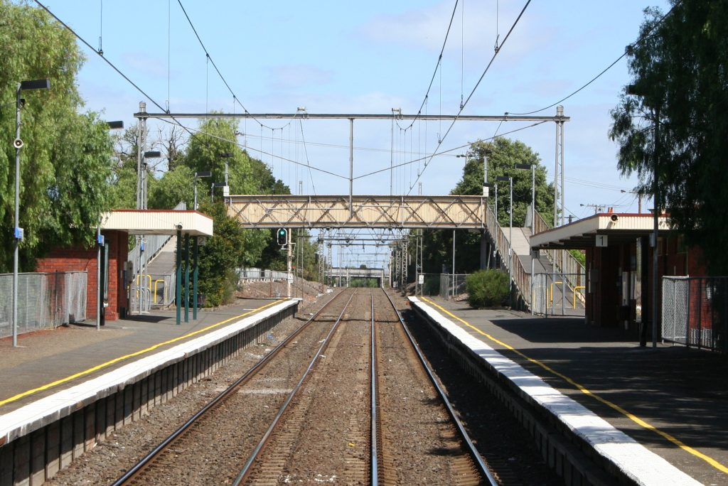 Overview of Seddon railway station, Melbourne from the city end. Citybound platform 1 to the right, outbound platform 2 to the right.